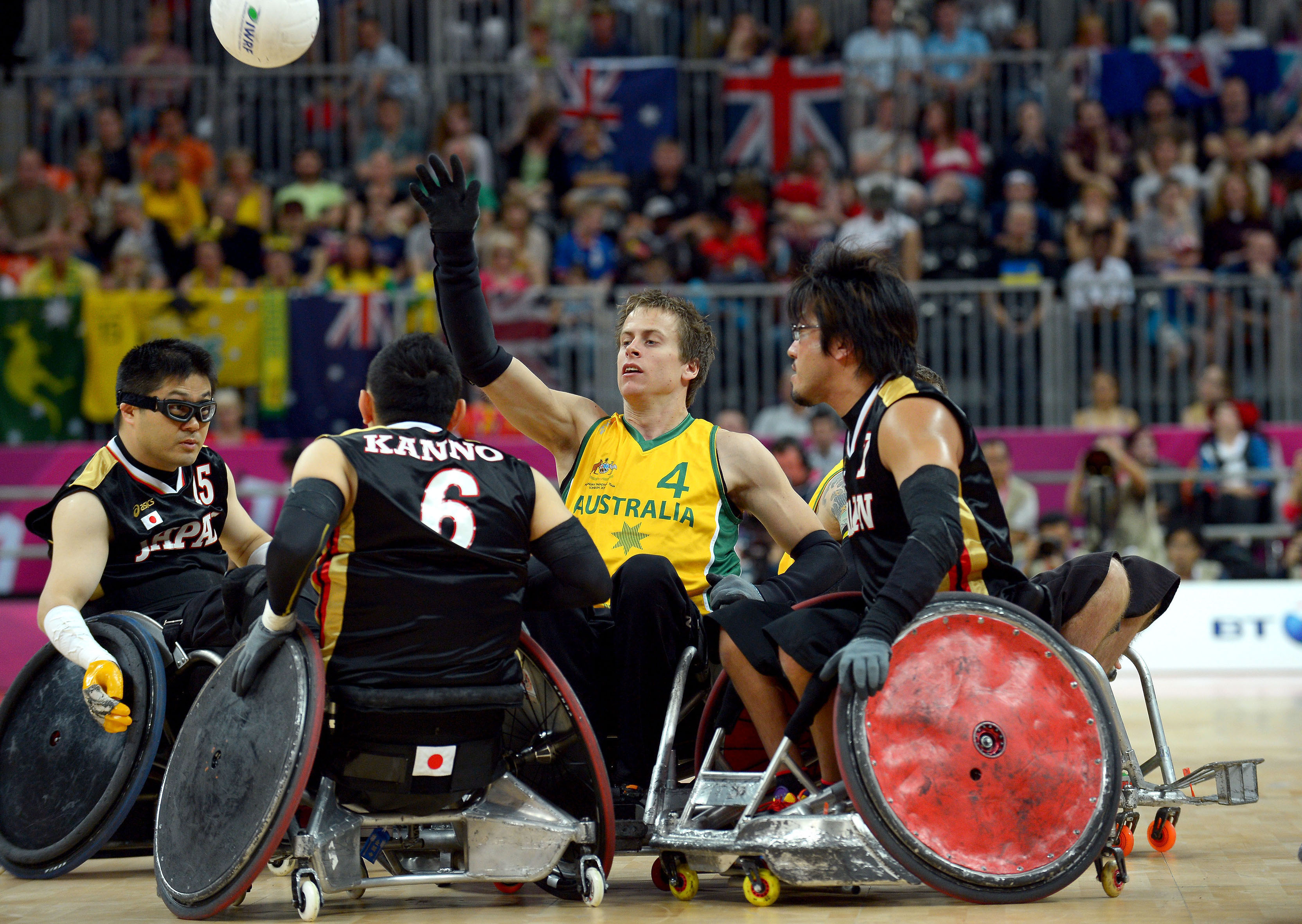 Photograph of Australian Paralympic team member Josh Hose at the 2012 Summer Paralympic Games in London